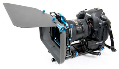 Genus Matte Box on Canon EOS 5D Mark II